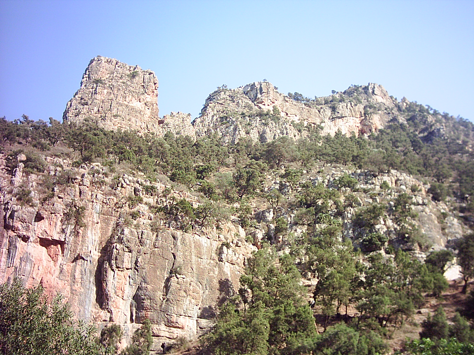 Jebel Tamejout - Grotte du Chameau (Cave of the Camel). ZEGZEL (L'Oriental)